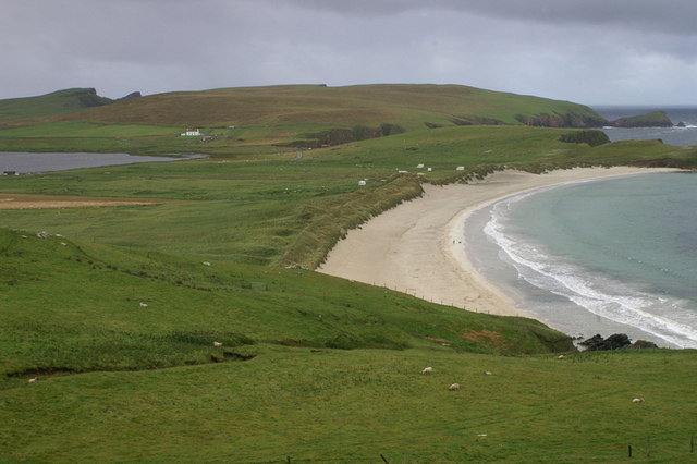 Bay of Scousburgh and Loch of Spiggie The view from Vanlop looking across the Sands of Scousburgh and the associated dunes, across towards the north end of the Loch of Spiggie.